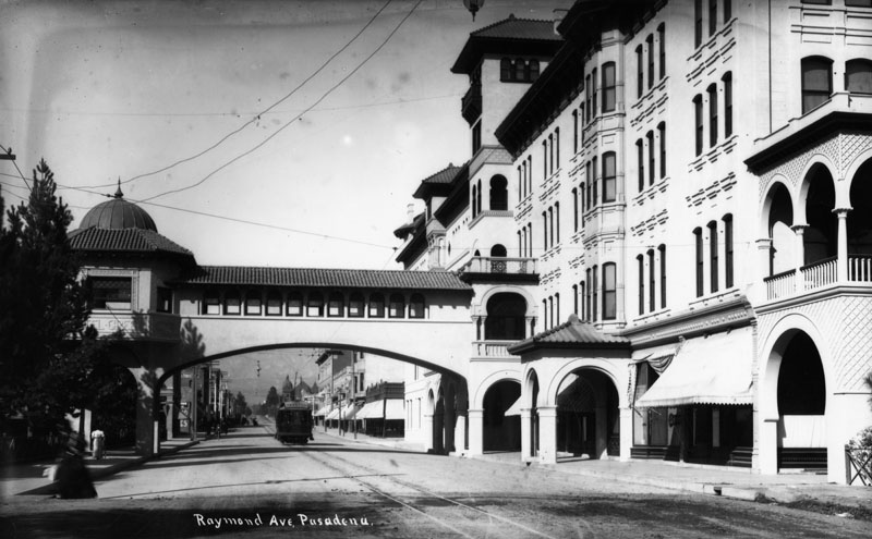 Exterior view of the Green Hotel in Pasadena. The bridge that extends from the building crosses over Raymond Avenue. Pasadena trolley can be seen travelling on Raymond Avenue.